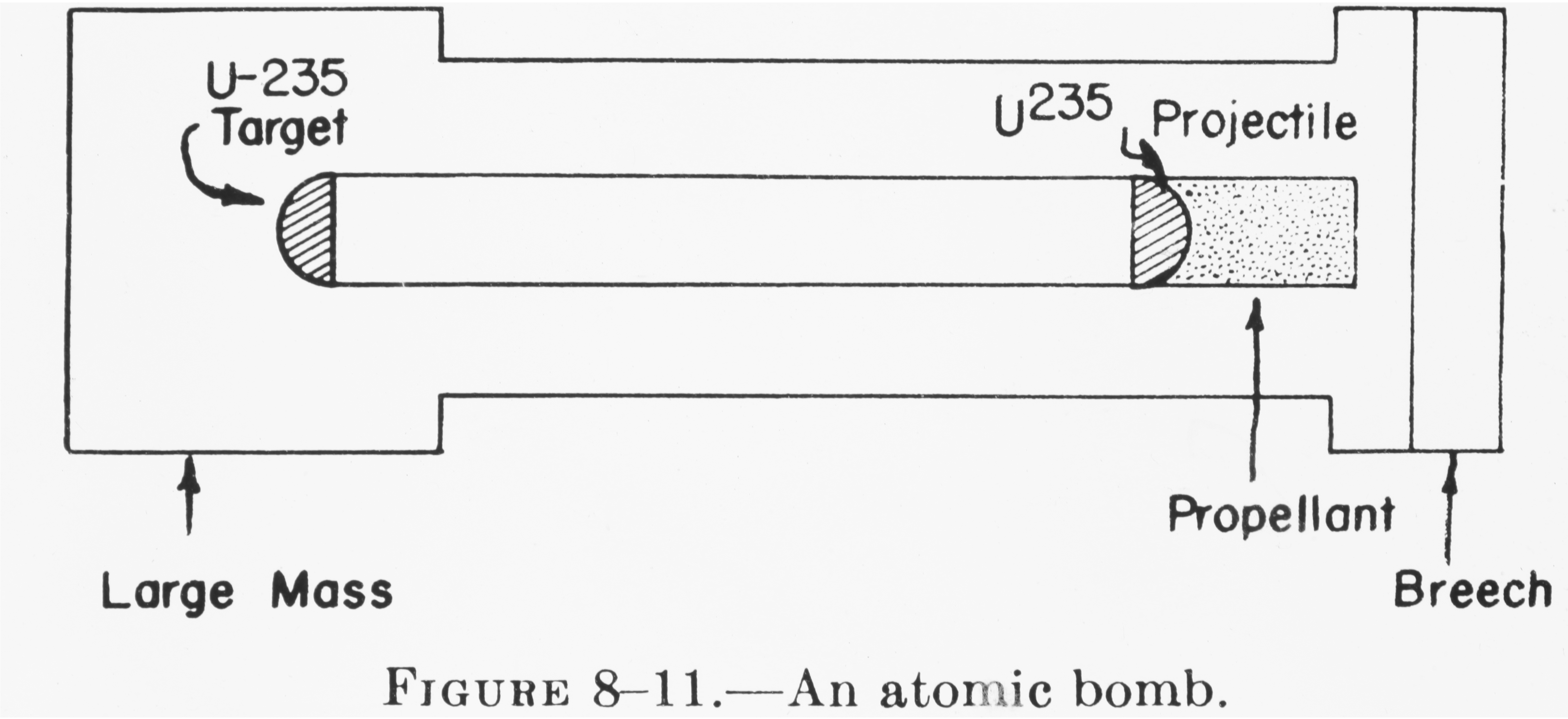 digitized from original glass negative